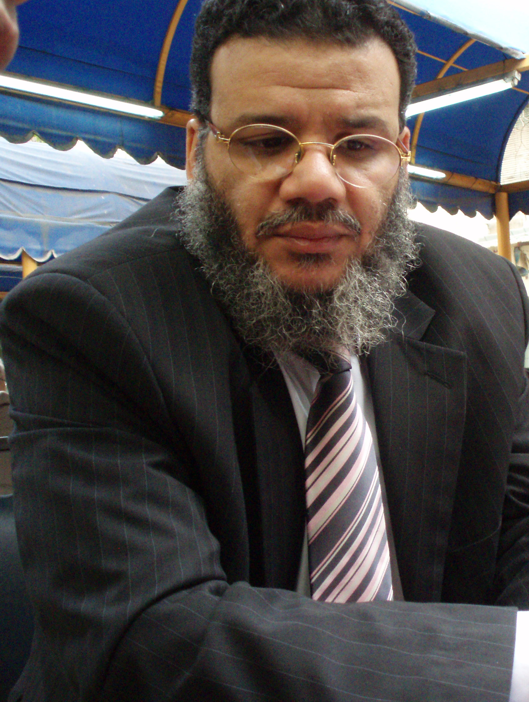 Islamist Lawyer Mamdouh Ismail